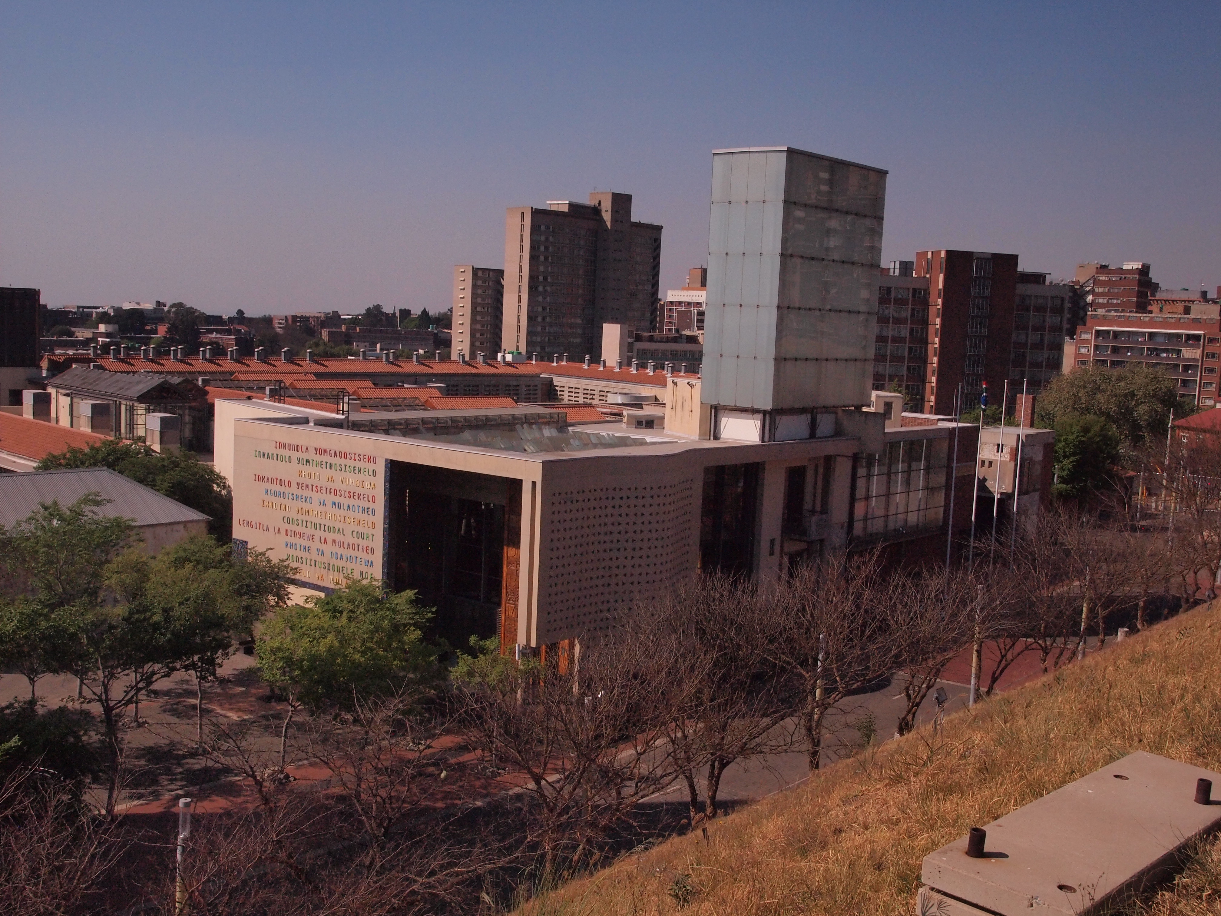 The constitutional Court of South Africa on Constitution Hill in Johannesburg, South Africa